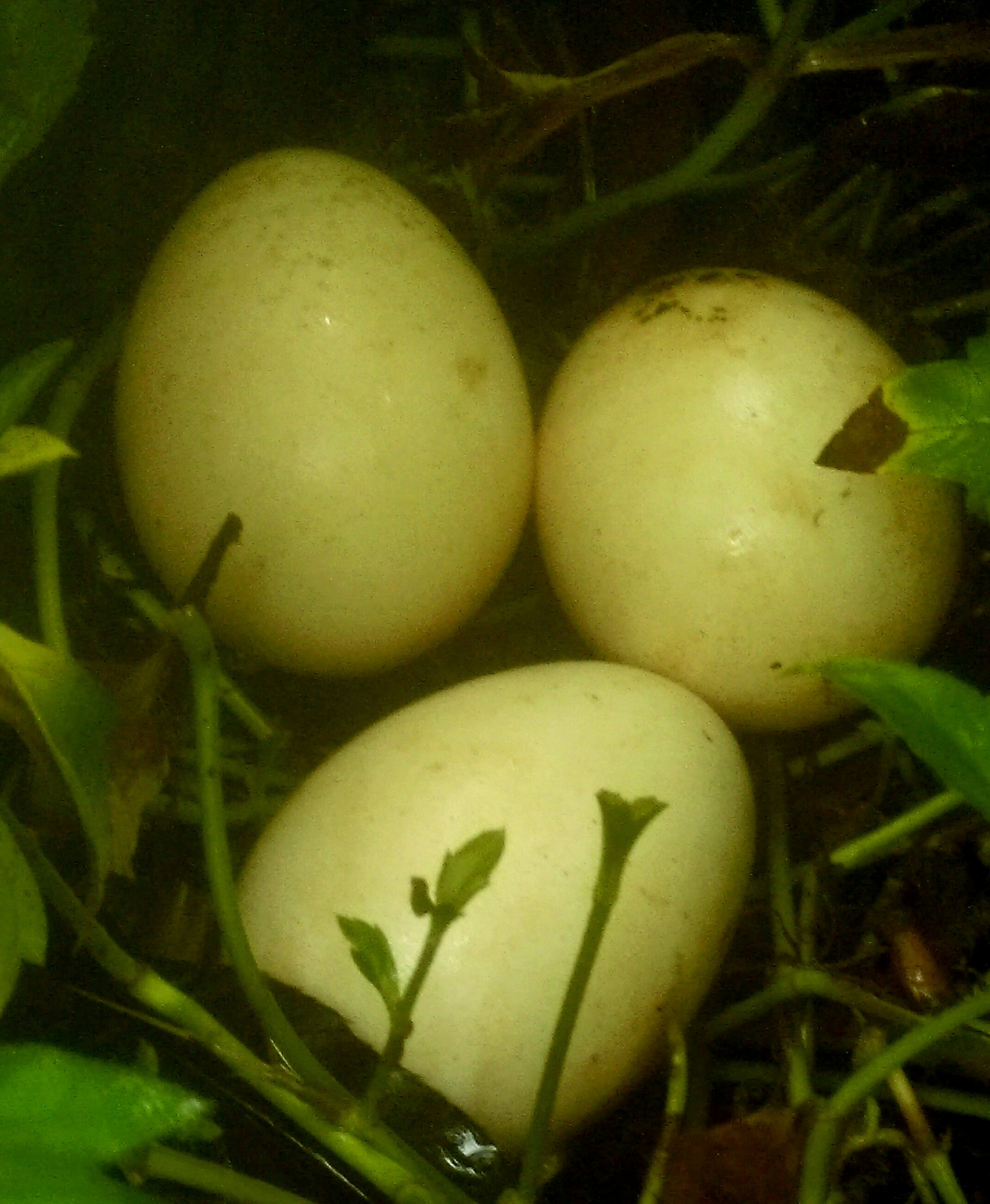 Eggs of Peafowl found at Aravath,Kasaragod District,Kerala,India